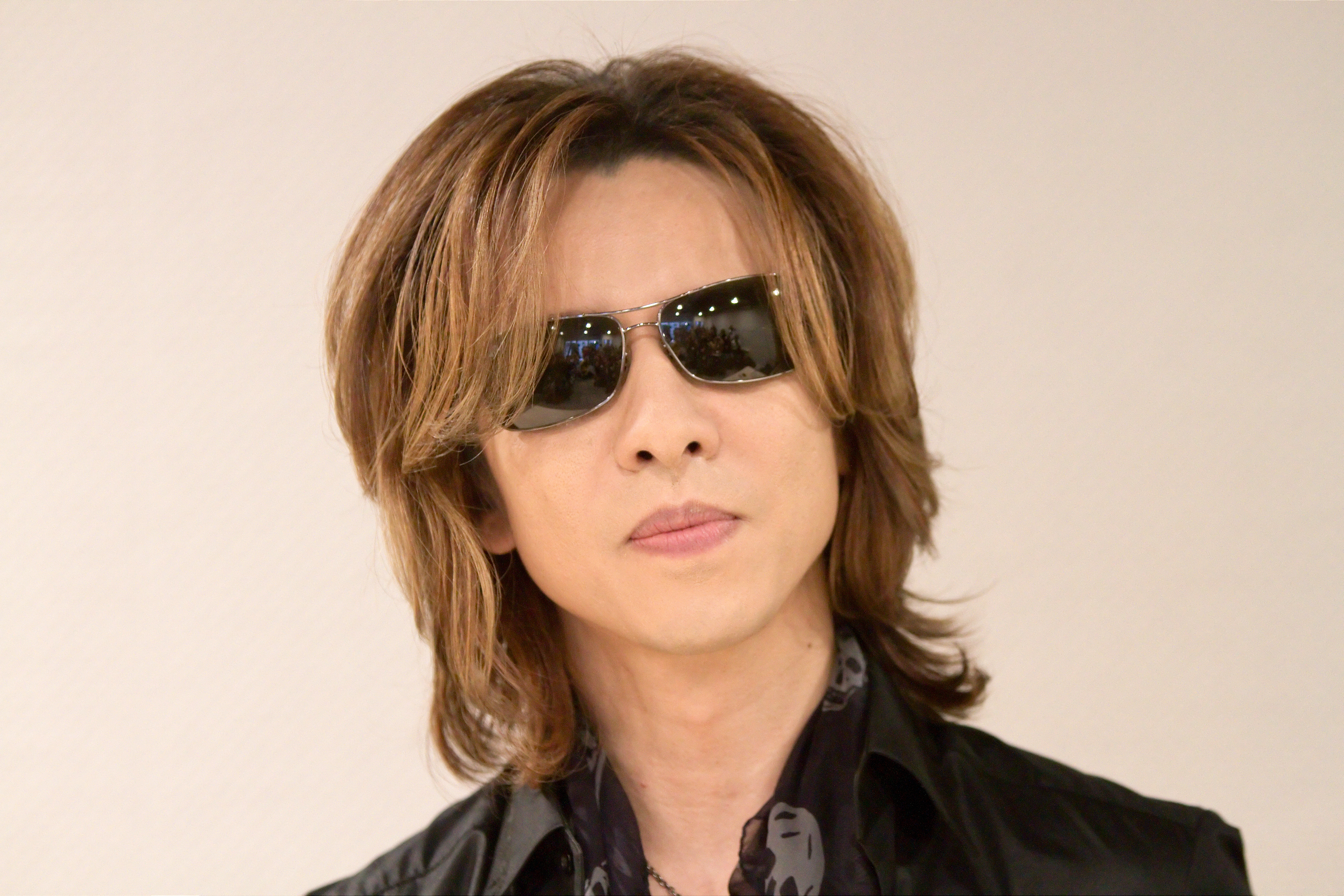 Press conference with Toshi and Yoshiki, from X Japan, at Japan Expo 2010 (Paris, France).